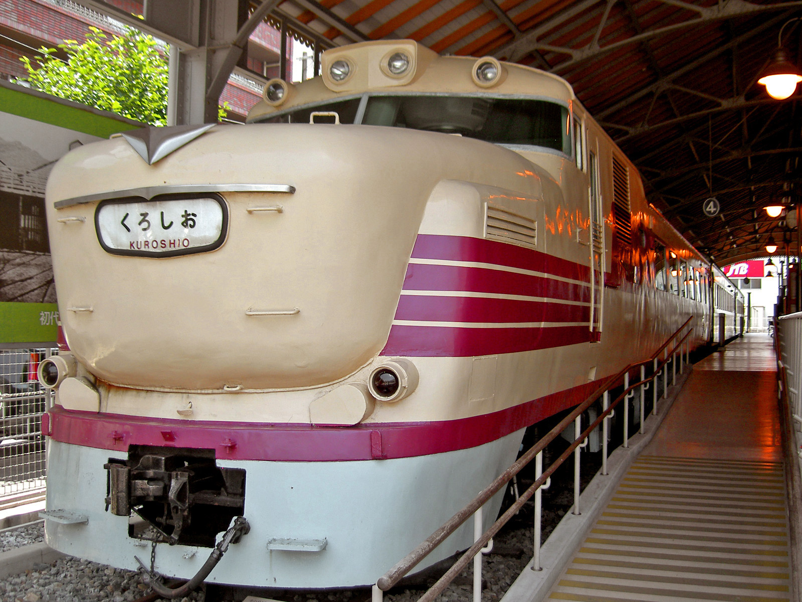 Kiha 81-2 of the JNR 80 Series DMU, in Osaka Transportation and Science Museum (Moved to Kyoto Railway Museum 2014/6).)